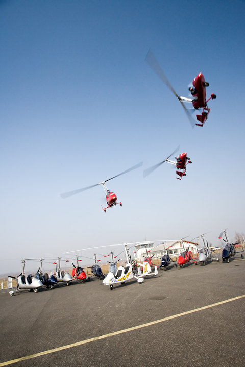 Siebenhofer's gyro.at base in Hungary